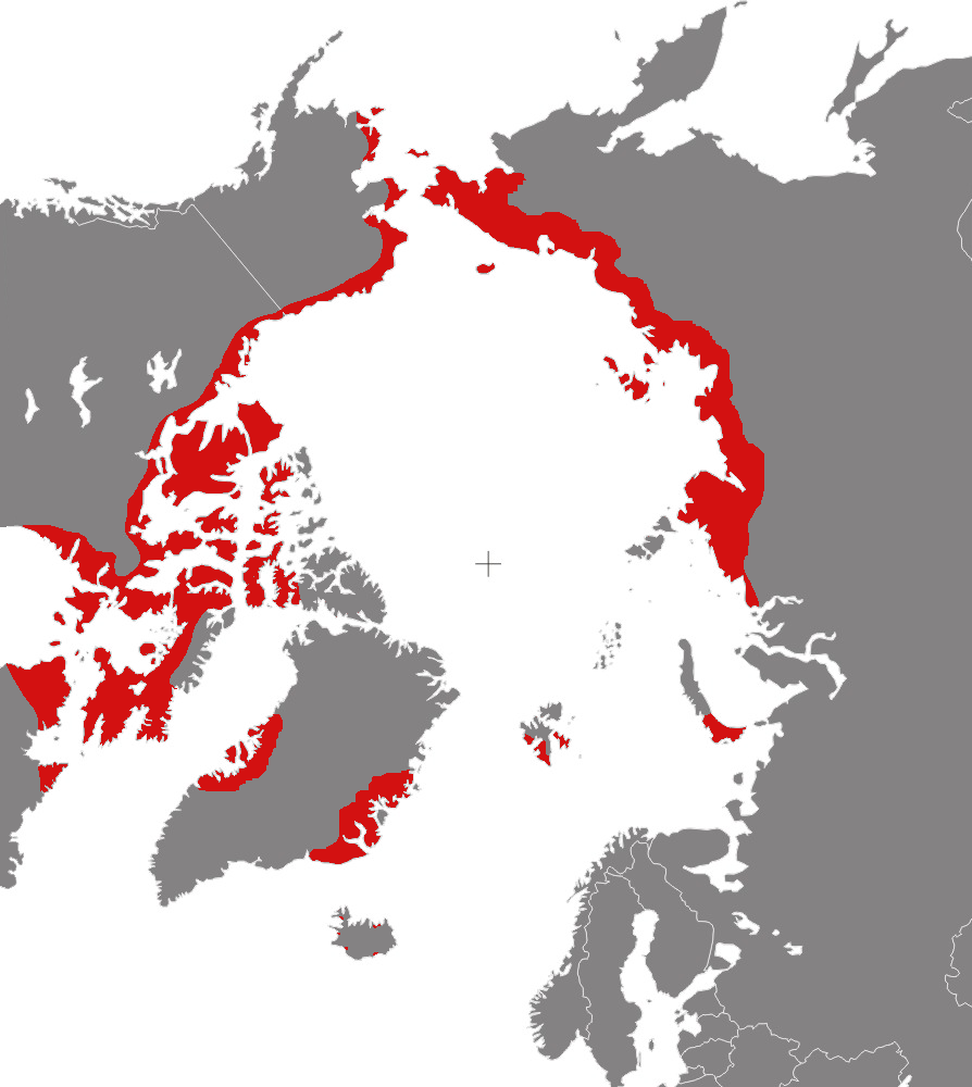 Range map of the Red Phalarope: Breeding grounds